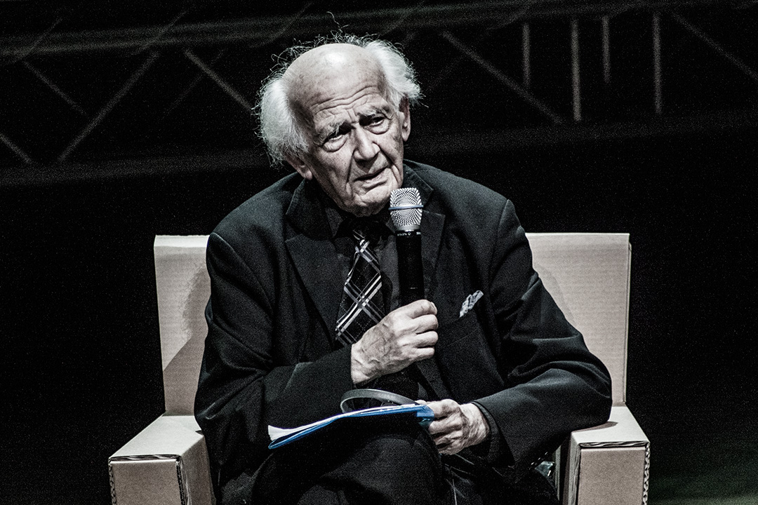 Event: Meet the Media Guru | Zygmunt Bauman Date: 9 October 2013 Venue: Teatro Dal Verme - Milan, Italy Twitter: @mmguru Photo by Massimo Demelas